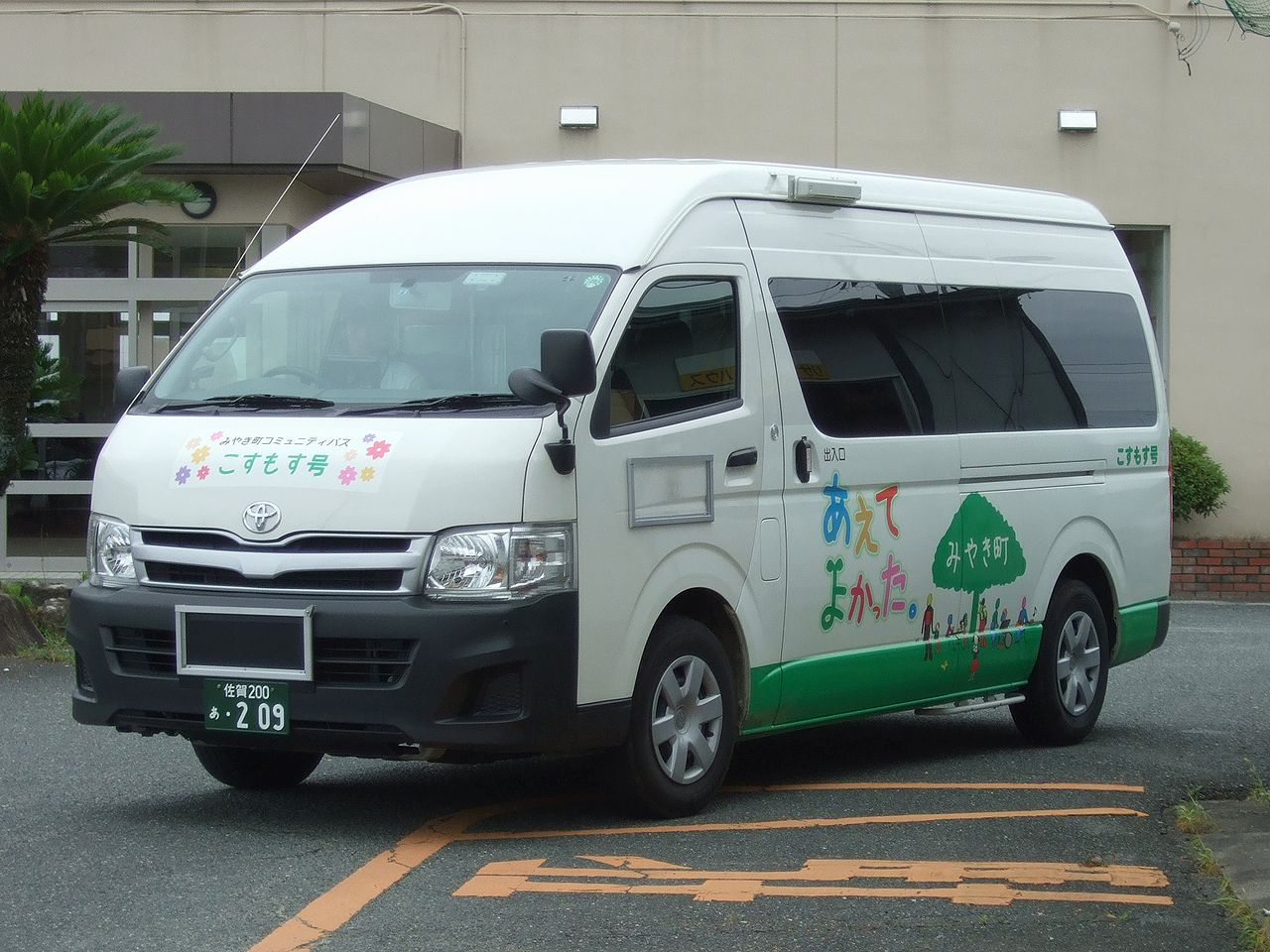 Miyaki Town Community Bus Cosmos-go